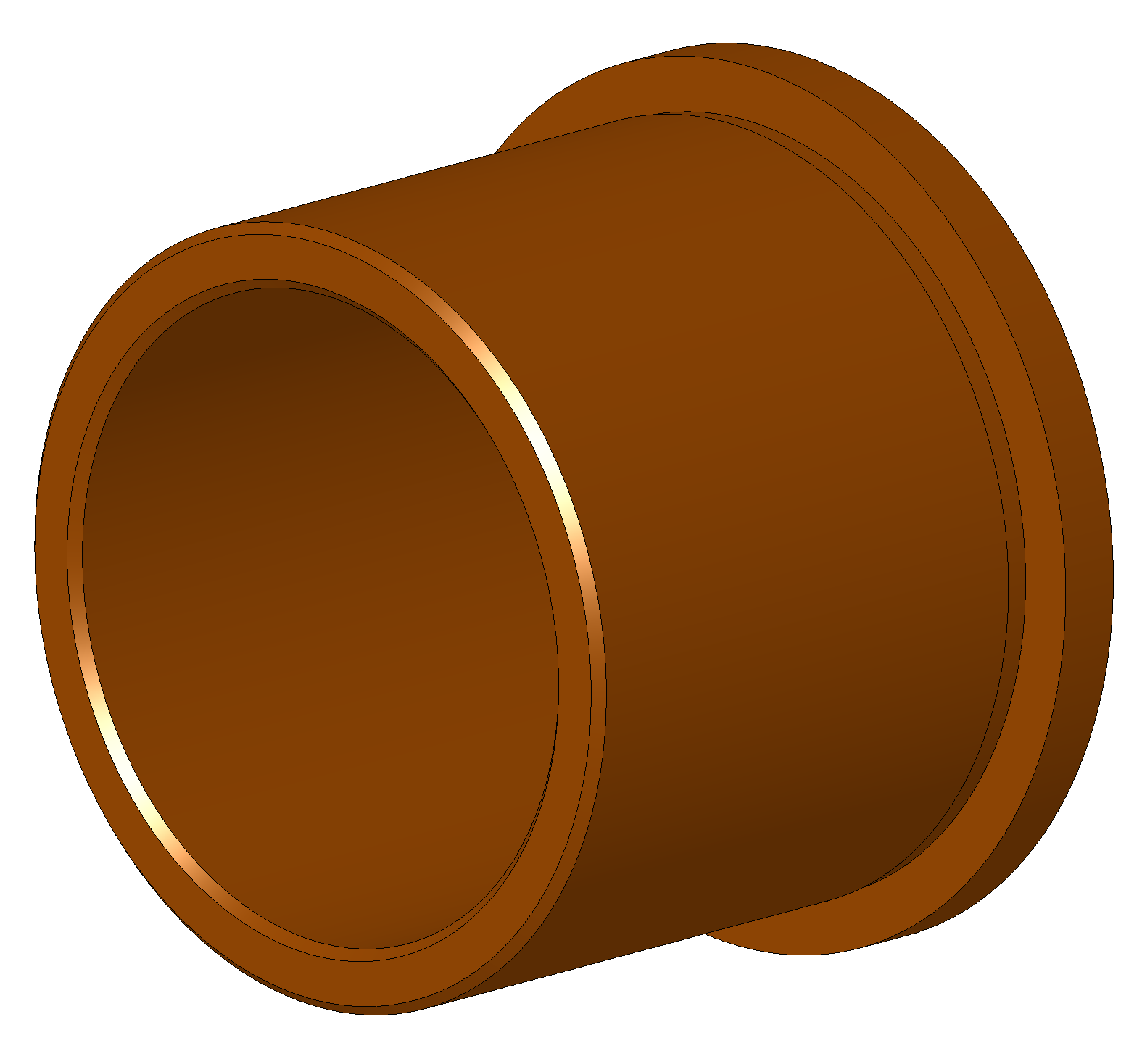 Plain bearing with flange (DIN ISO 4379, type F).